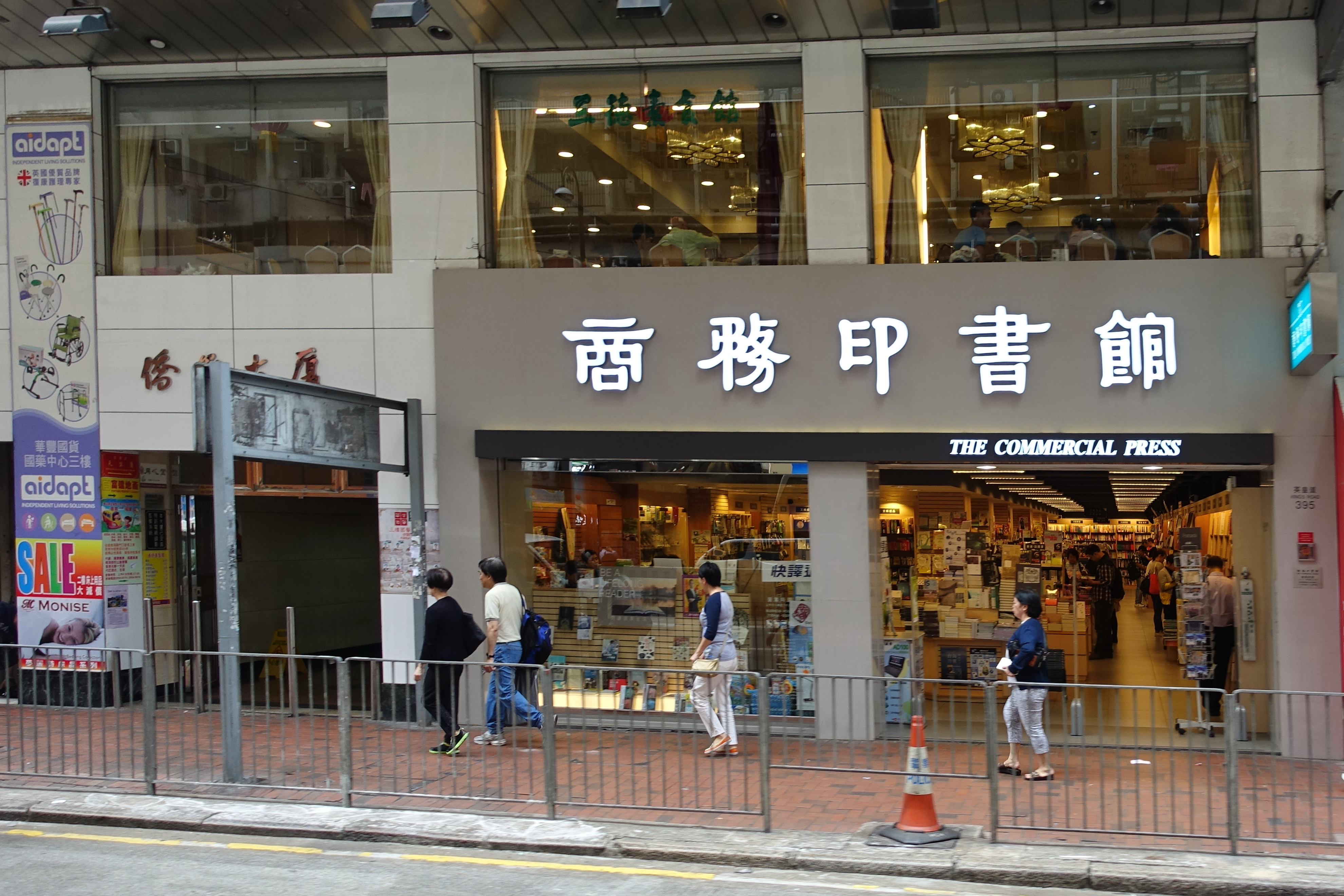 The Commercial Press (H.K.) Ltd., North Point Branch, Hong Kong. (395 King's Road, North Point)